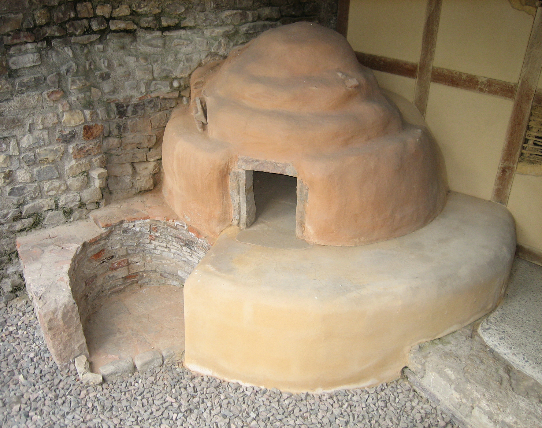 The best preserved Roman oven north of the Alps in Augst, Switzerland.